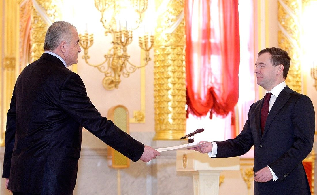 GRAND KREMLIN PALACE, MOSCOW. Presentation by foreign ambassadors of their letters of credence. Dmitry Medvedev receives a letter of credence from Ambassador of the Republic of Armenia Oleg Yesayan.